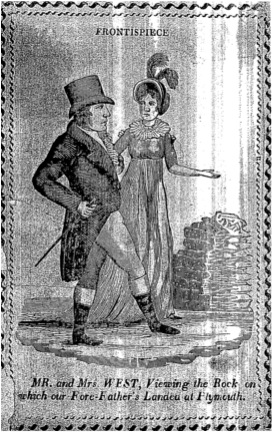 Wedding portrait